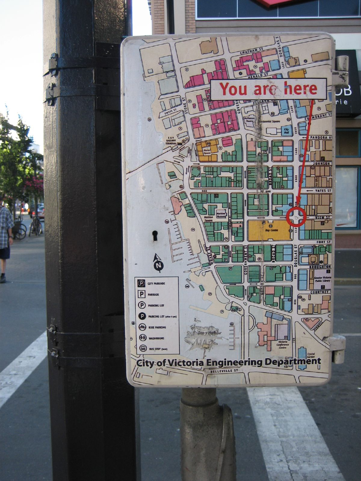 What an amazing idea! Cover utility boxes that are usually either ugly grey slabs or graffiti beacons with something useful and easy on the eyes! (Canada, Victoria)